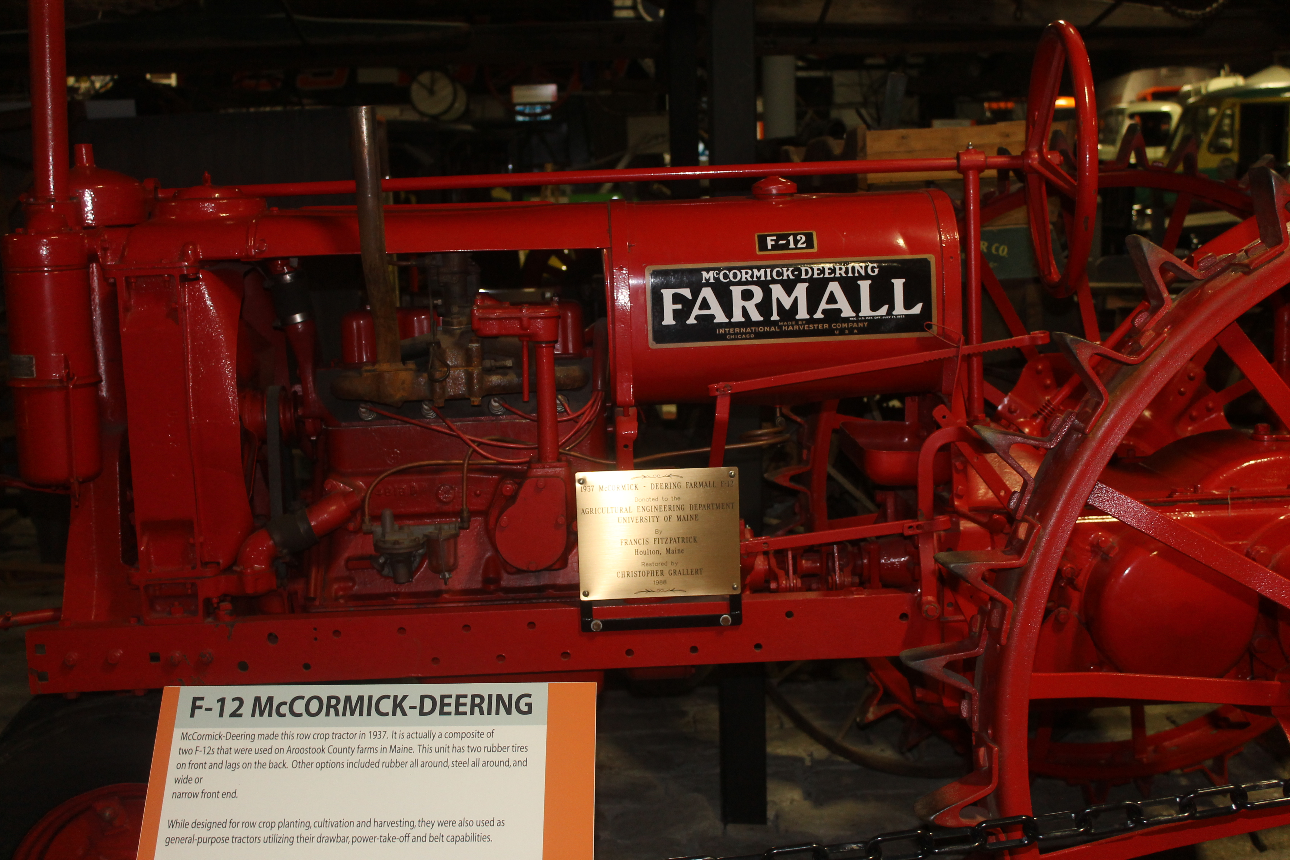 I took photo of 1937 F-12 McCormick-Deering tractor at Cole Land Transportation Museum in Bangor, ME, with Canon camera.